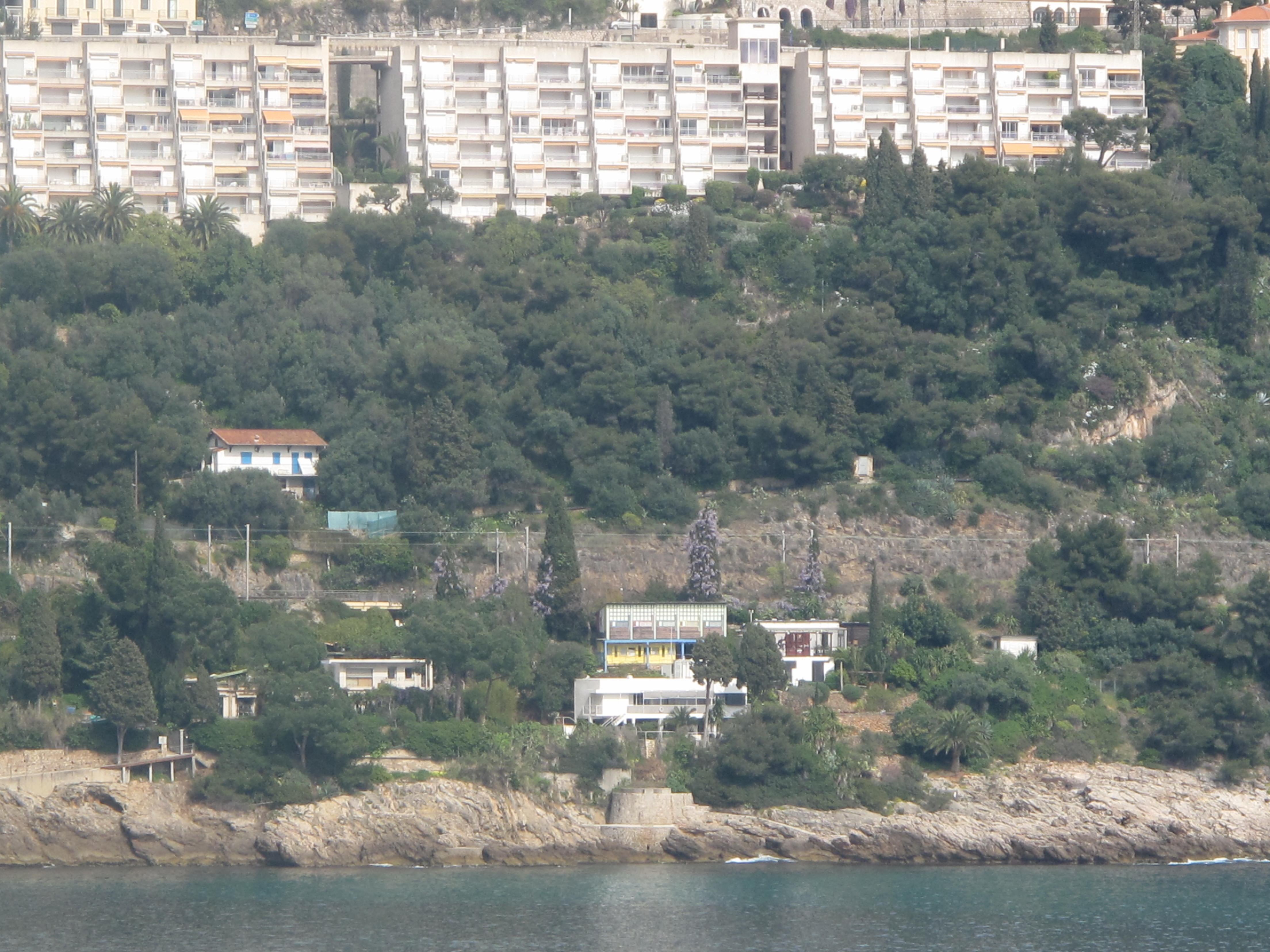 Some buildings in Cap-Martin (Alpes-Maritimes, France). We see modern buildings with parking on the roof, the villa E-1027, the buildings named Camping units by their architect le Corbusier and the pavillon le Corbusier where he lived at the end of his life. See annotations.This photo is free of rights according freedom of panorama, because it is an overview of several buildings, some of them not original. See : Commons:De Minimis.